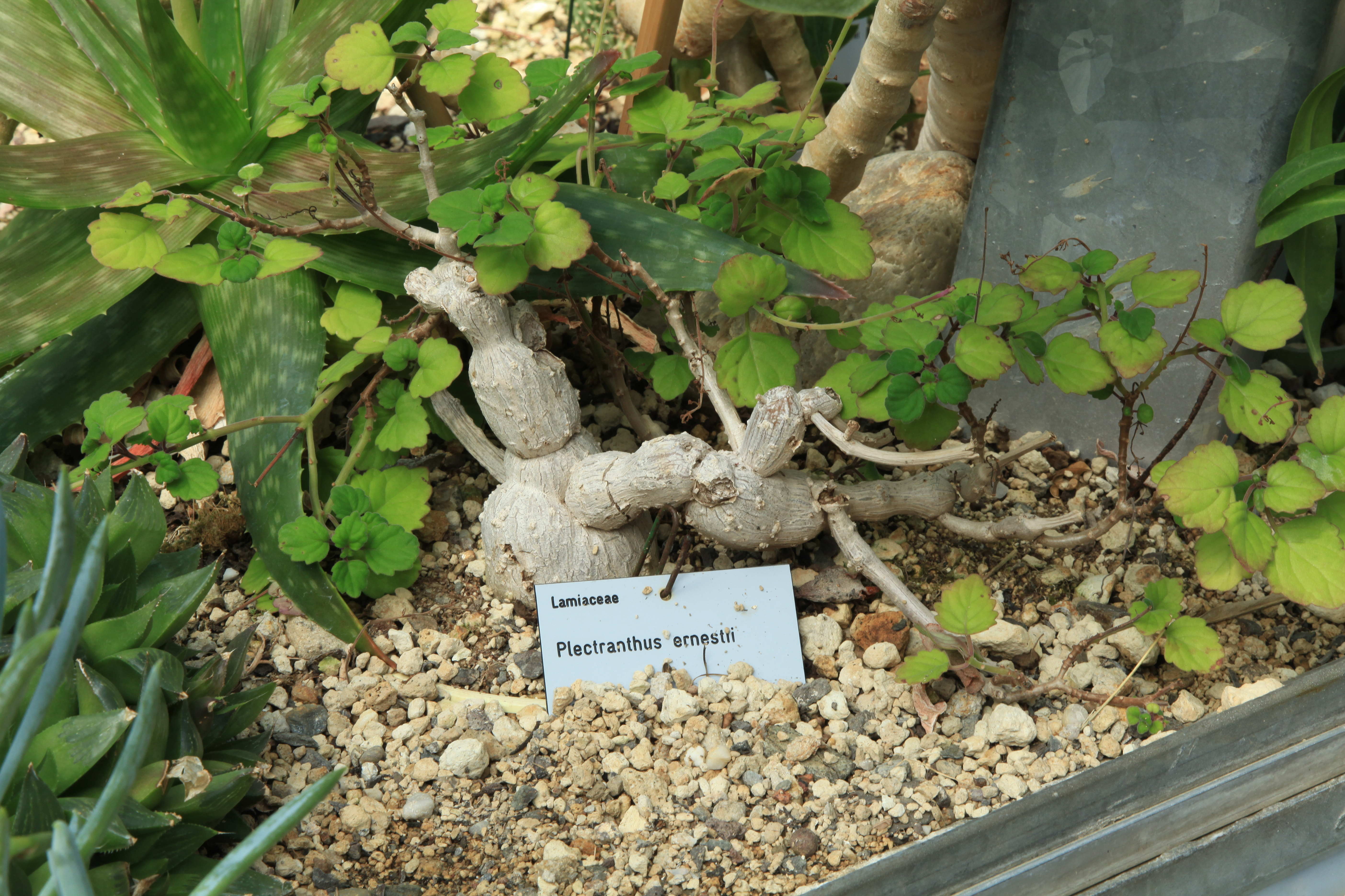 Plectranthus ernstii (spelling mistake on label), greenhouses at Rombergpark in Dortmund